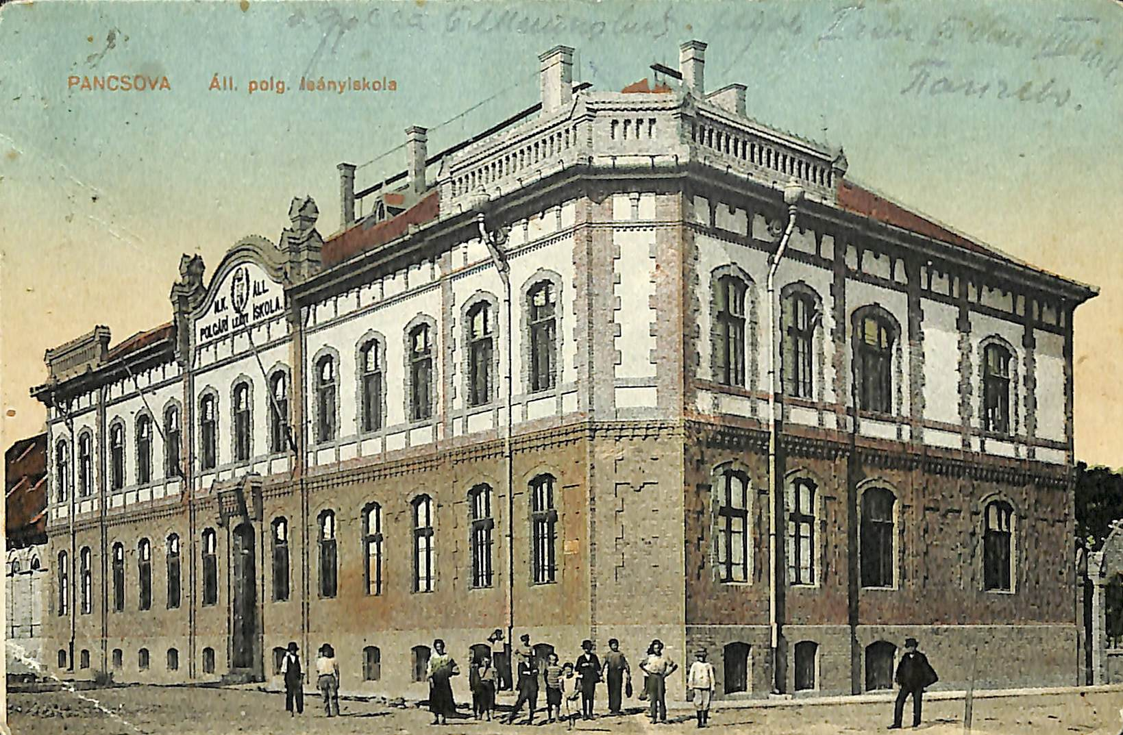 Girls school in Pančevo, today Electrical Engineering School Nikola Tesla in Pancevo